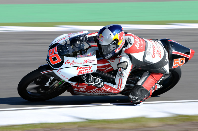 Sturla Fagerhaug 2010 Assen